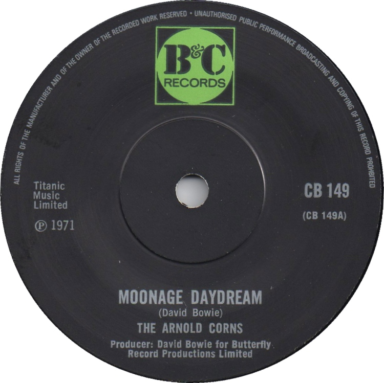 "Moonage Daydream" by The Arnold Corns; UK vinyl release